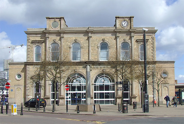 The Queen's Building, Wolverhampton. This was designed by Edward Banks in the Italianate style and built in 1849 from yellow brick and sandstone columns and two storeys topped by two square turrets, both of which used to have clocks. It was originally a ticket office and with offices above and entrance to the railway station. The two centre arches were for carriages to pass through; pedestrians used the narrower arches by the sides. The decision to preserve the building was made just in time in 1978, but work was not carried out until the late 1980s when the bus station was being developed. At the same time, the two single storey side sections were added, compare here: 1244814 What a pity that a 20th century metal sculpture has been allowed to be placed centrally in front of the historic architecture. Full information